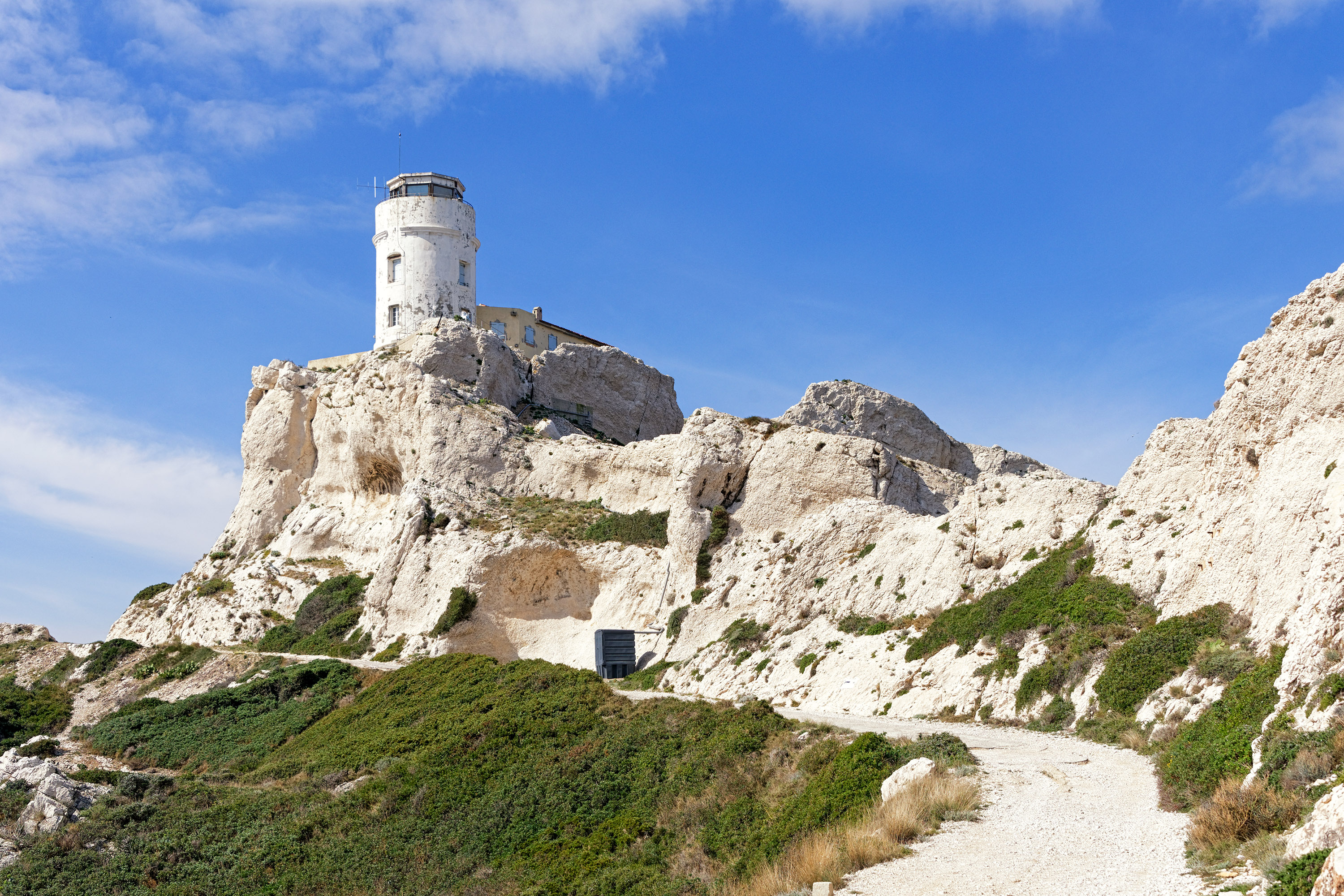 Semaphore on the island of Pomègues, Frioul archipelago, National Park of the Calanques